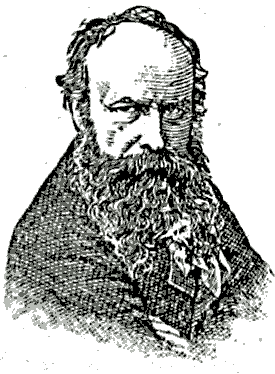 Vassili Verechagin, russian painter. 1842-1904